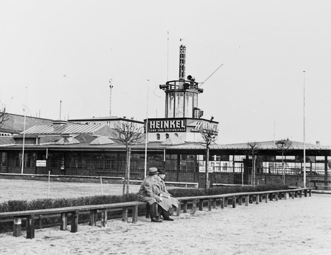 Flygplatsen Tempelhof i Berlin år 1937 Photograph by: unknown Date: 1937 Photo Nr: 2068-50